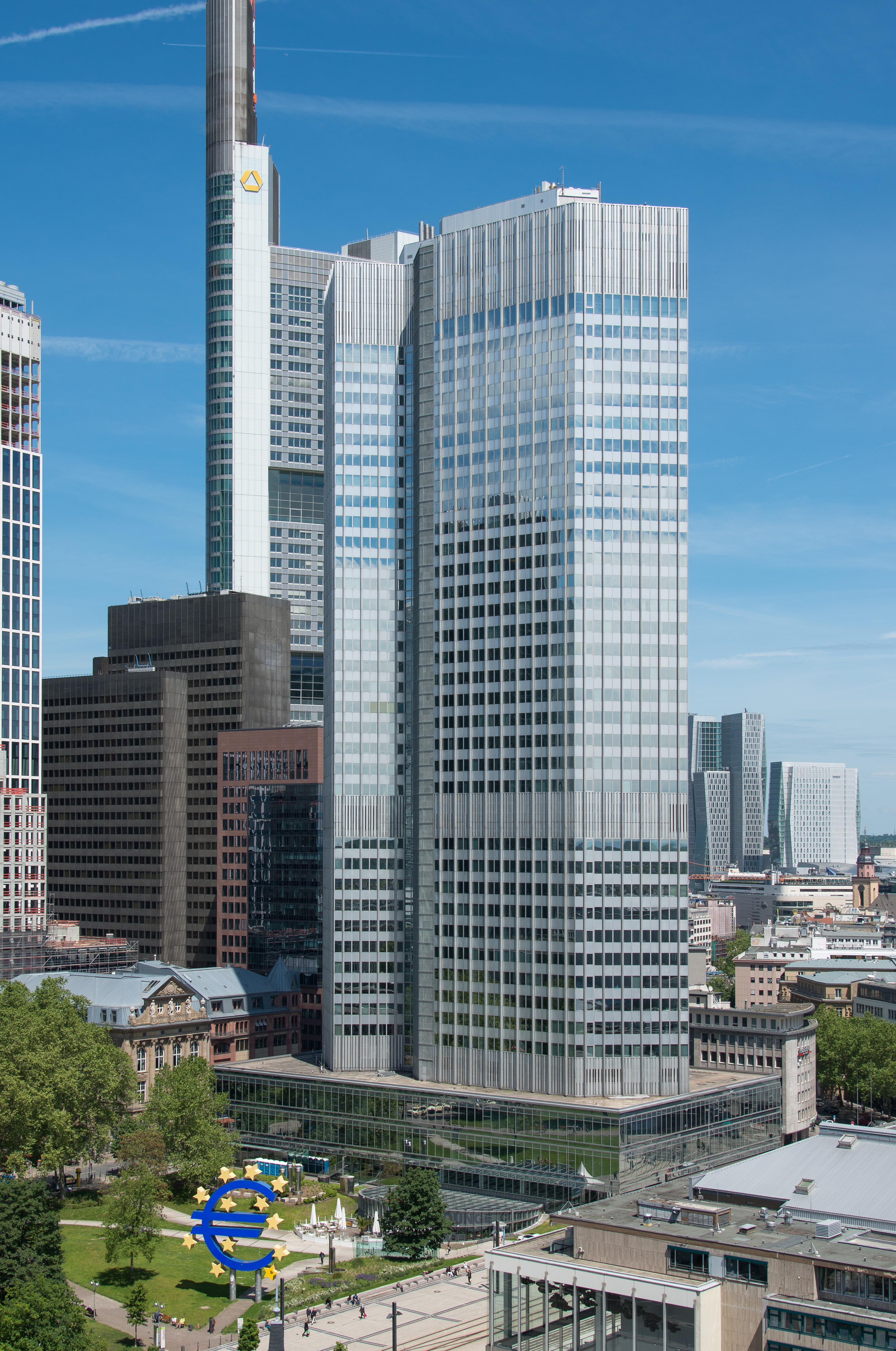 Frankfurt, Eurotower, headquarter of the European Central Bank until 2014.